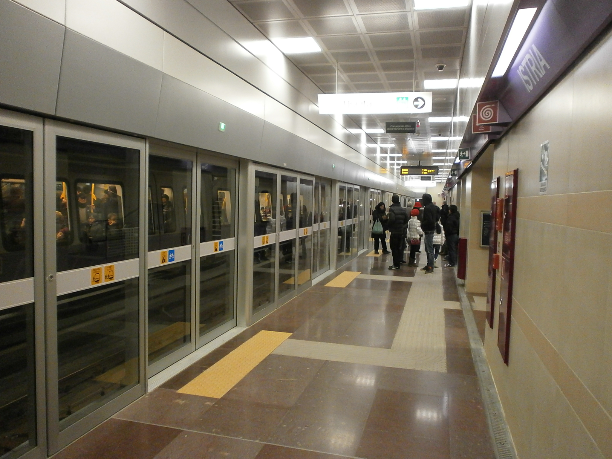 Metropolitana di Milano - linea M5 (lilla) - banchina stazione Istria - Milano